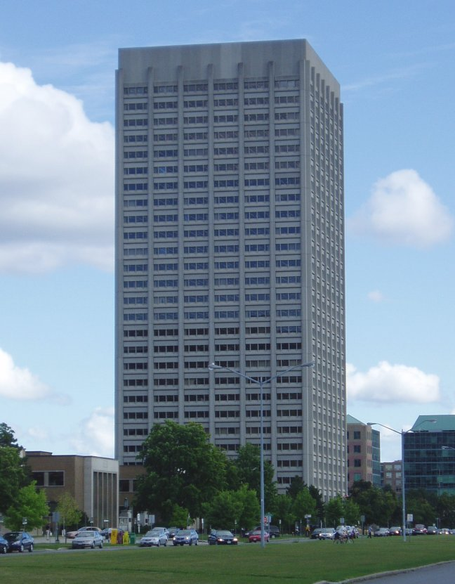 Taken by SimonP in August 2005